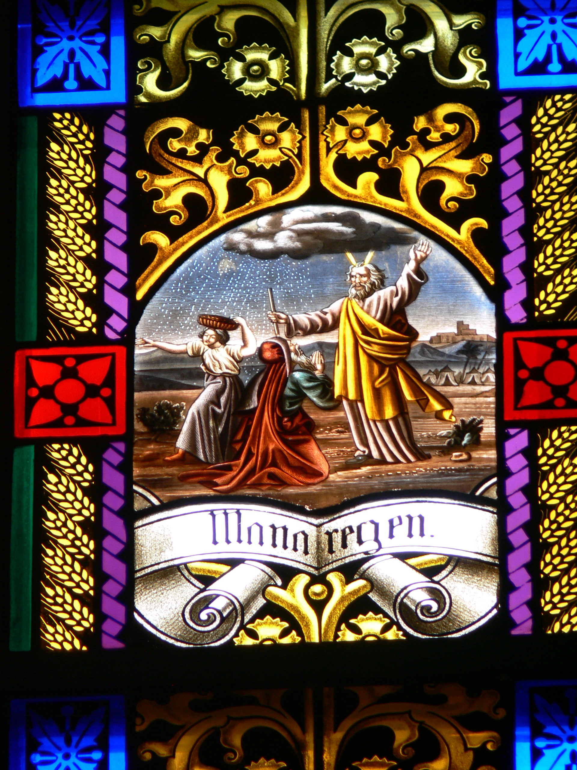 Pötting - parish church of the Holy Cross: Stained glass window showing the miracle of Manna.